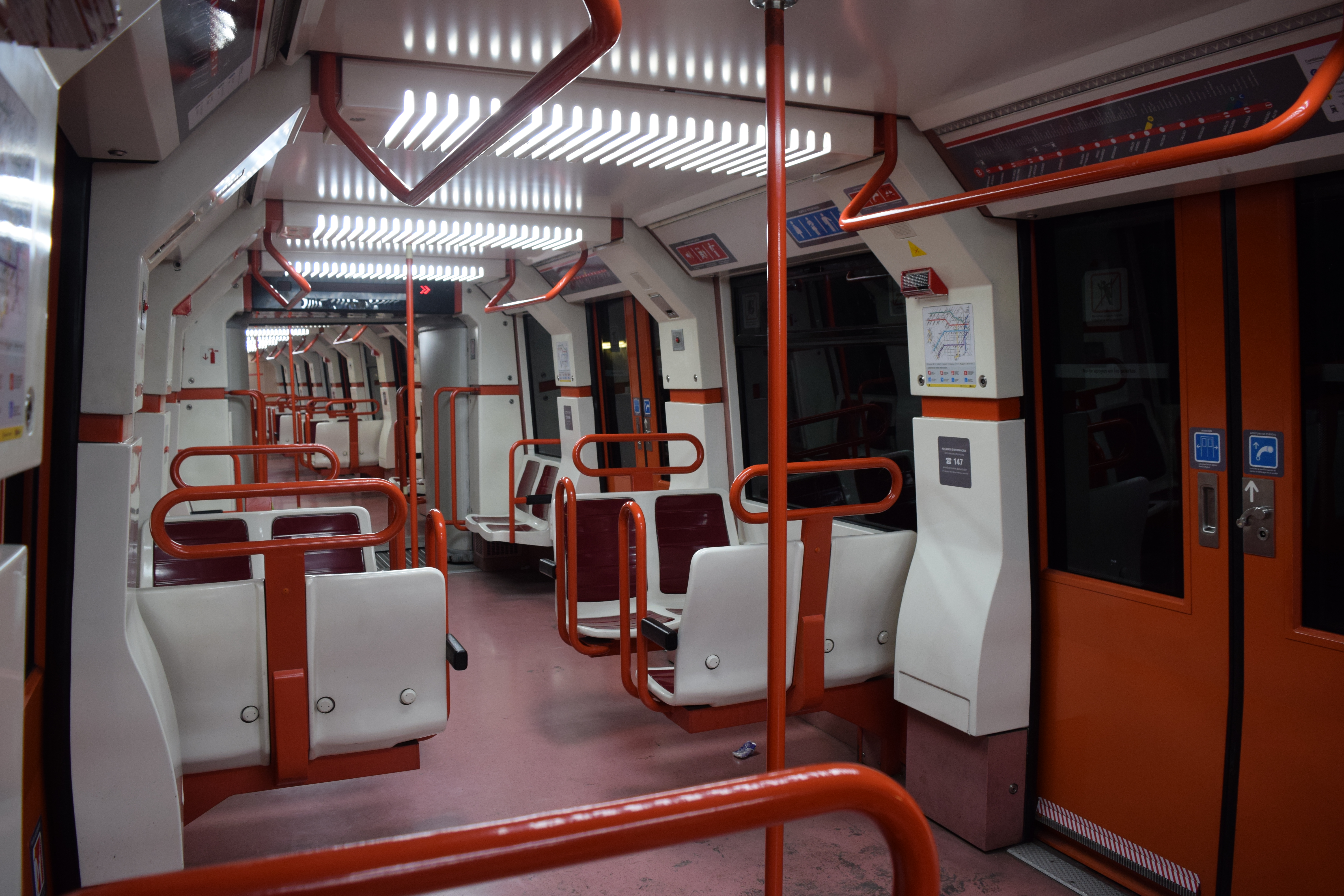 A CAF 6000 on Line B of the Buenos Aires Underground.